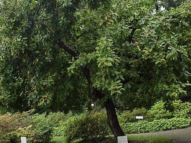 Species: Mespilus germanica Family: Rosaceae Image No. 3